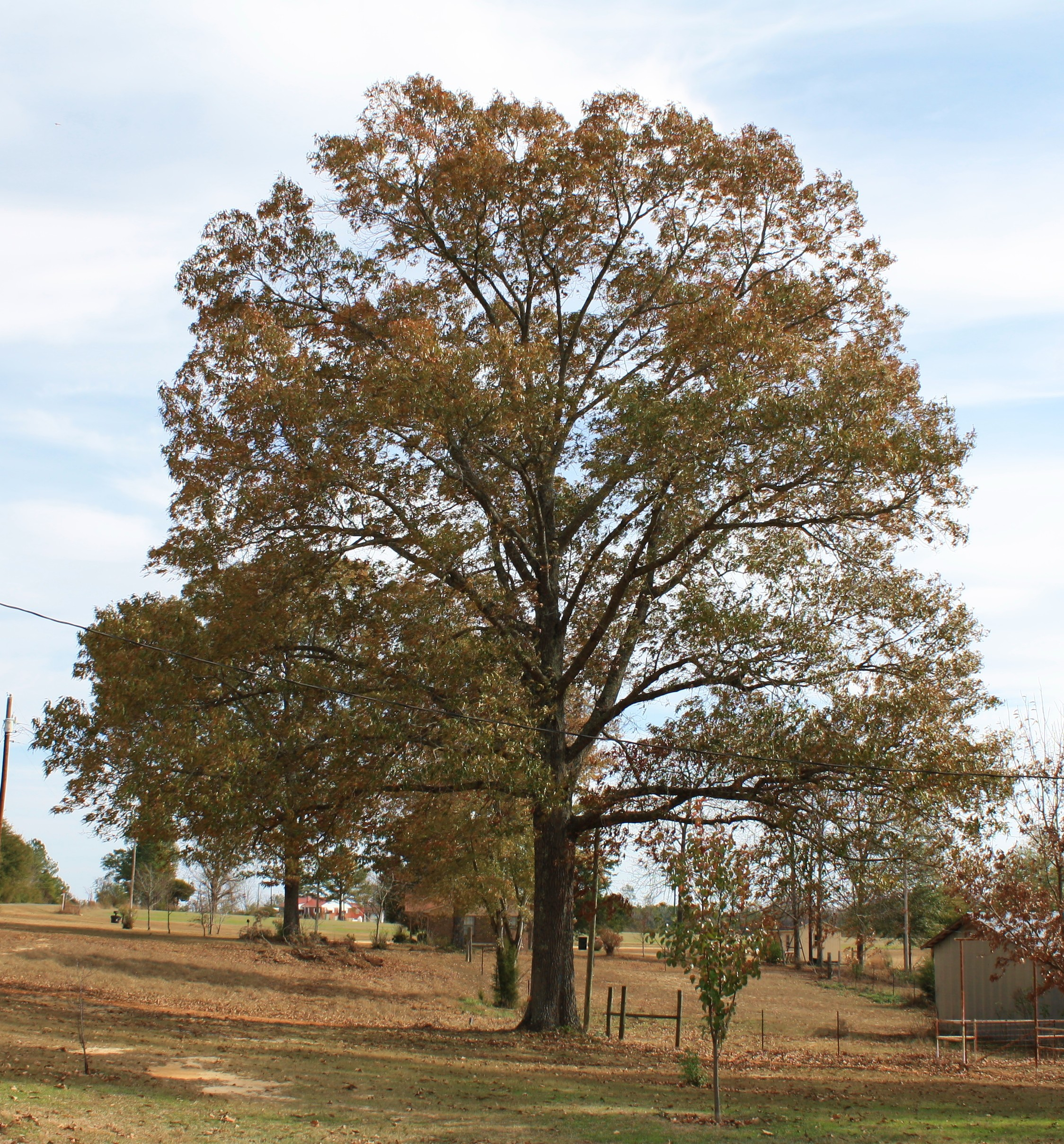 A Southern Red Oak (Quercus falcata) specimen in Marengo County, Alabama, United States.